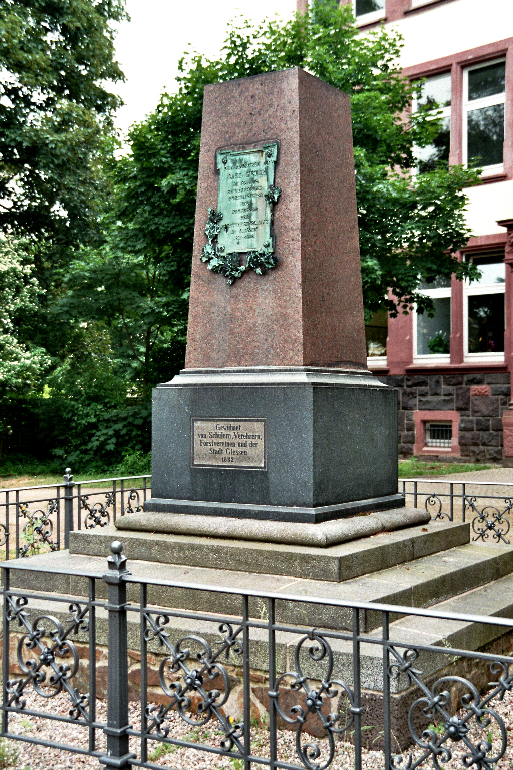 Carl Heyer Monument (dedicated in 1892) in Gießen, Germany, beside the Ricarda Huch School.